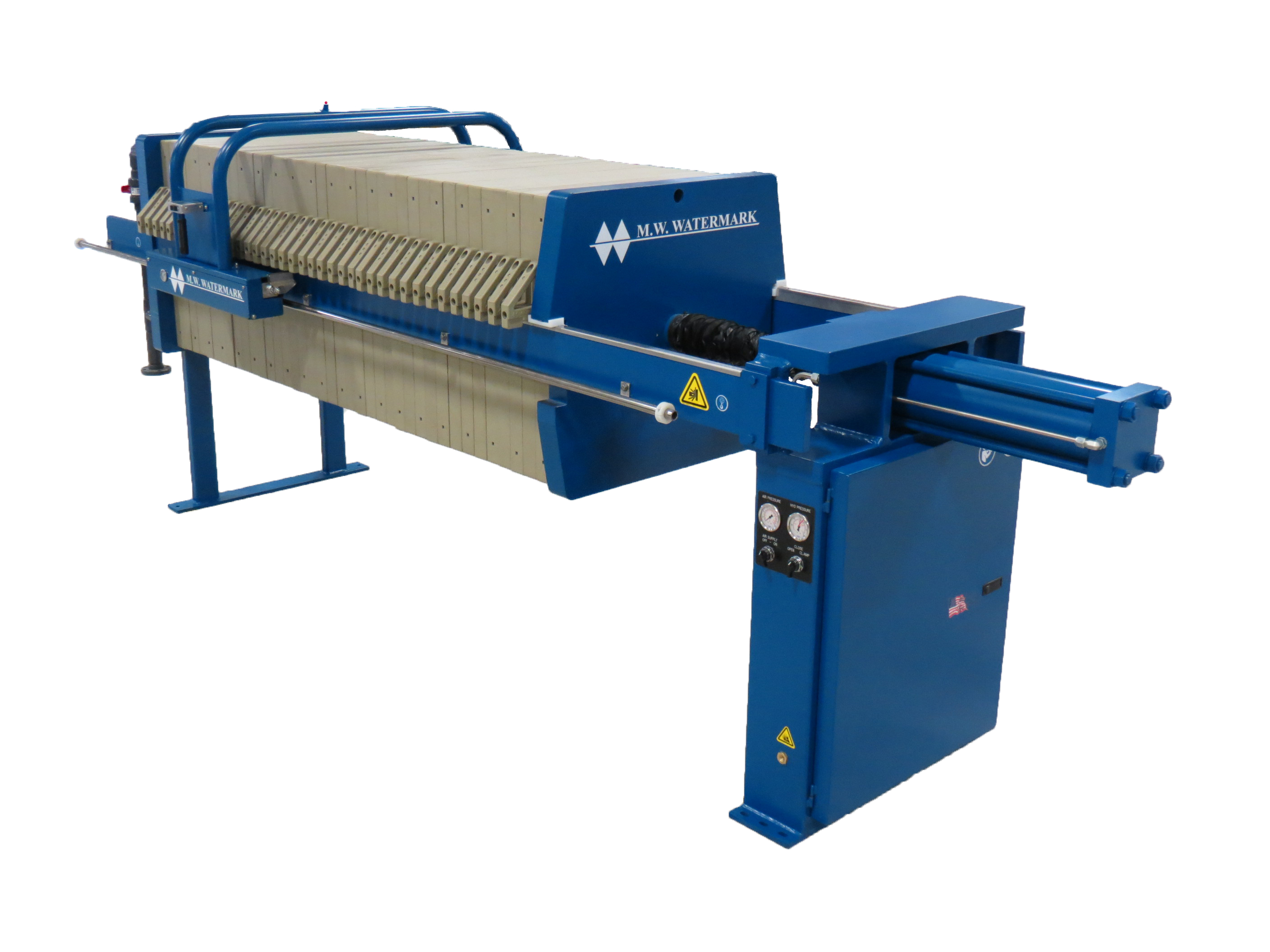 M.W. Watermark 800mm Filter Press with Semi-Automatic Plate Shifter